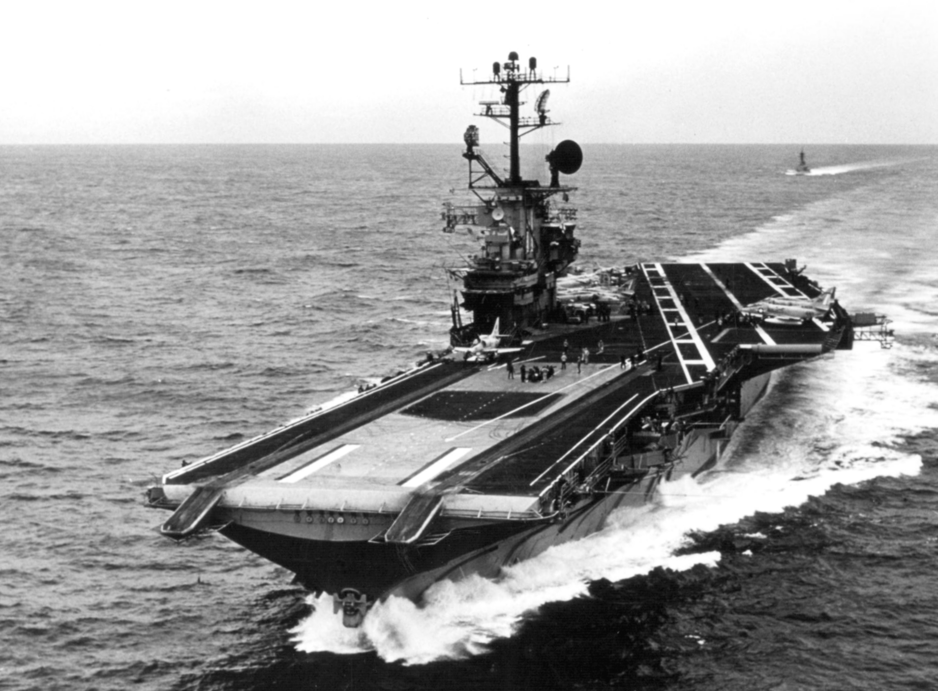 The U.S. Navy aircraft carrier USS Intrepid (CVS-11) underway in the South China Sea en route to Yankee Station off the coast of Vietnam in 1968. Intrepid, with assigned Attack Carrier Air Wing 10 (CVW-10), was deployed to Vietnam from 4 June 1968 to 9 February 1969.